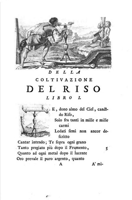 The Cultivation of Rice , first book, printed at Verona in 1758 - Italy.